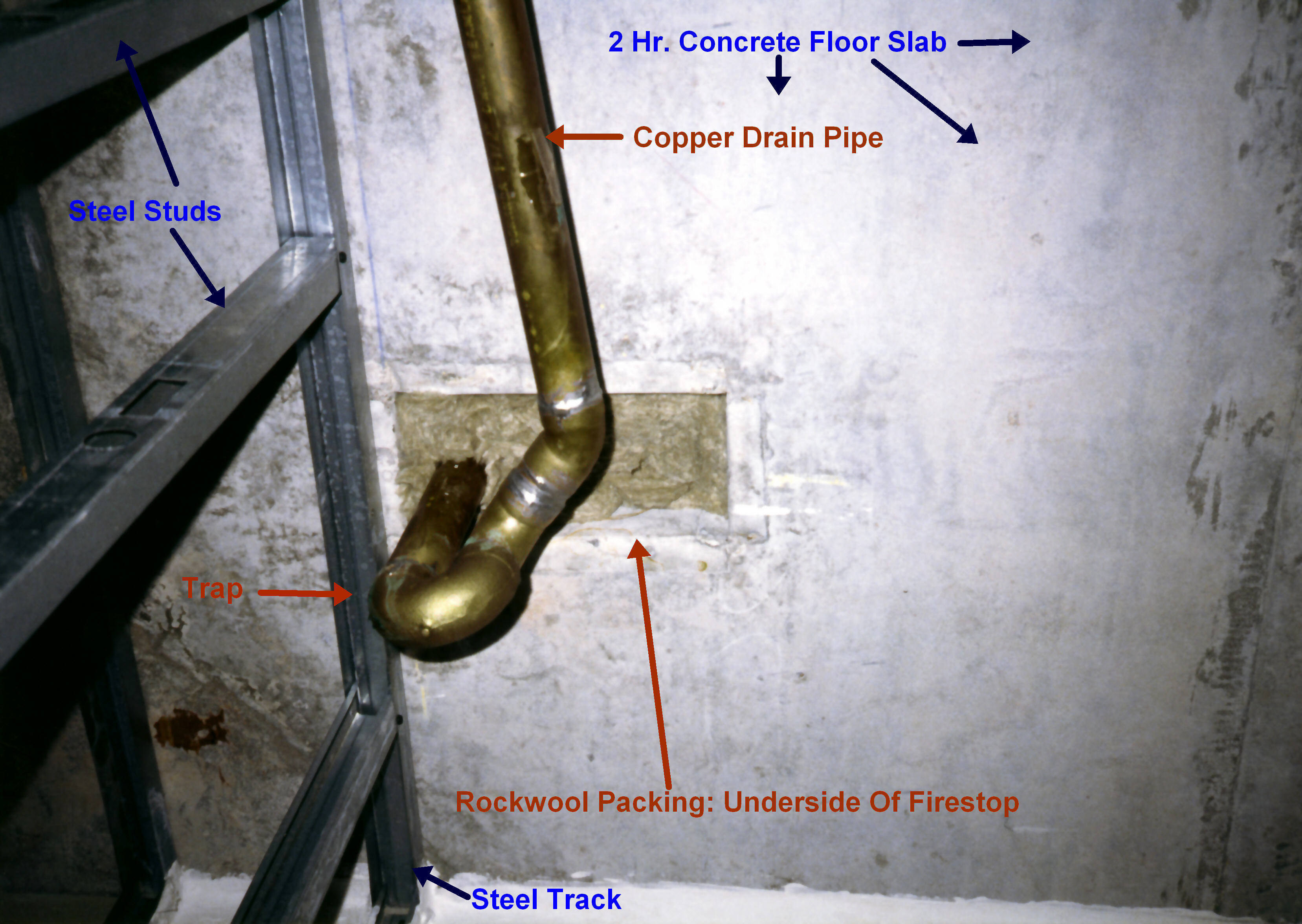 Plumbing trap under 2 hour fire-resistance rated concrete floor slab, showing underside of firestop with rockwool packing.